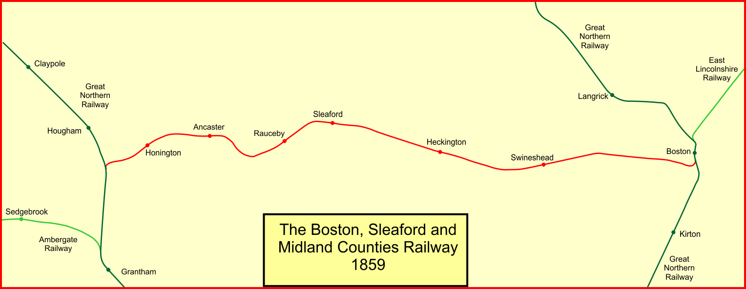 System map of the Boston, Sleaford and Midland Counties Railway, Lincolnshire, England, in 1859